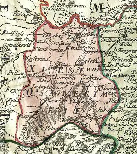 Duchy of Auschwitz(-Zator) on a map from 1775, as part of the Galicia